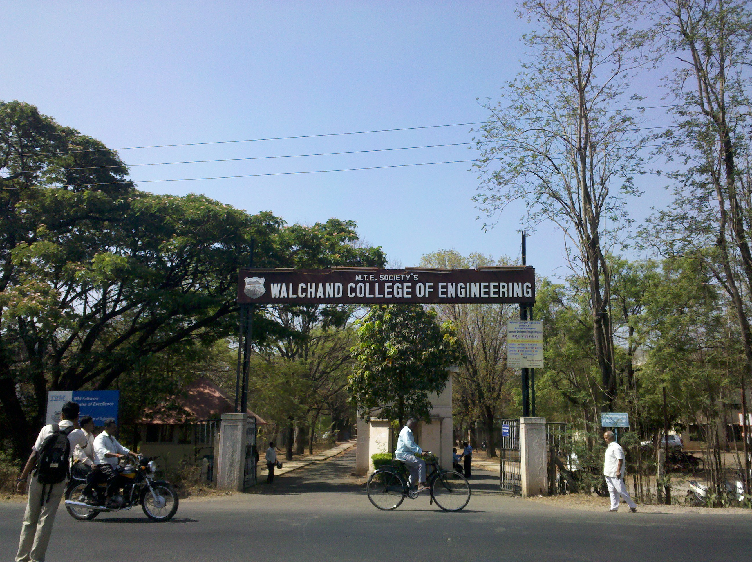 Walchand College of Engineering Sangli Main entrance